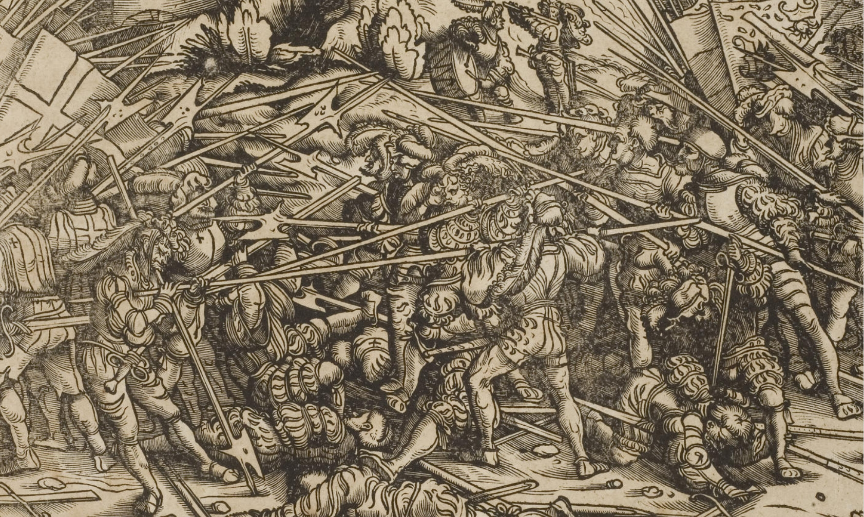 See title